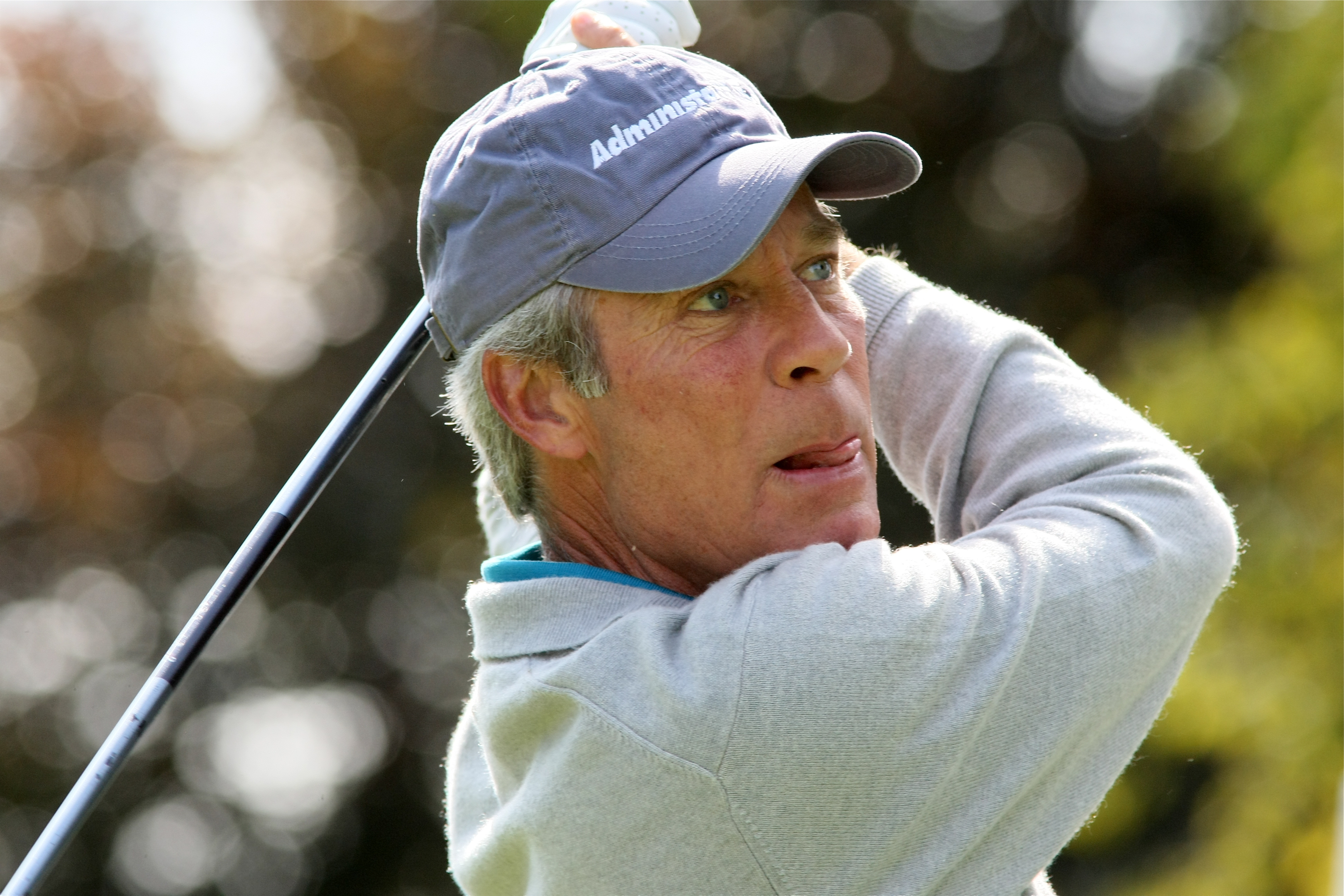 Ben Crenshaw at the 2008 Senior Players Championship.